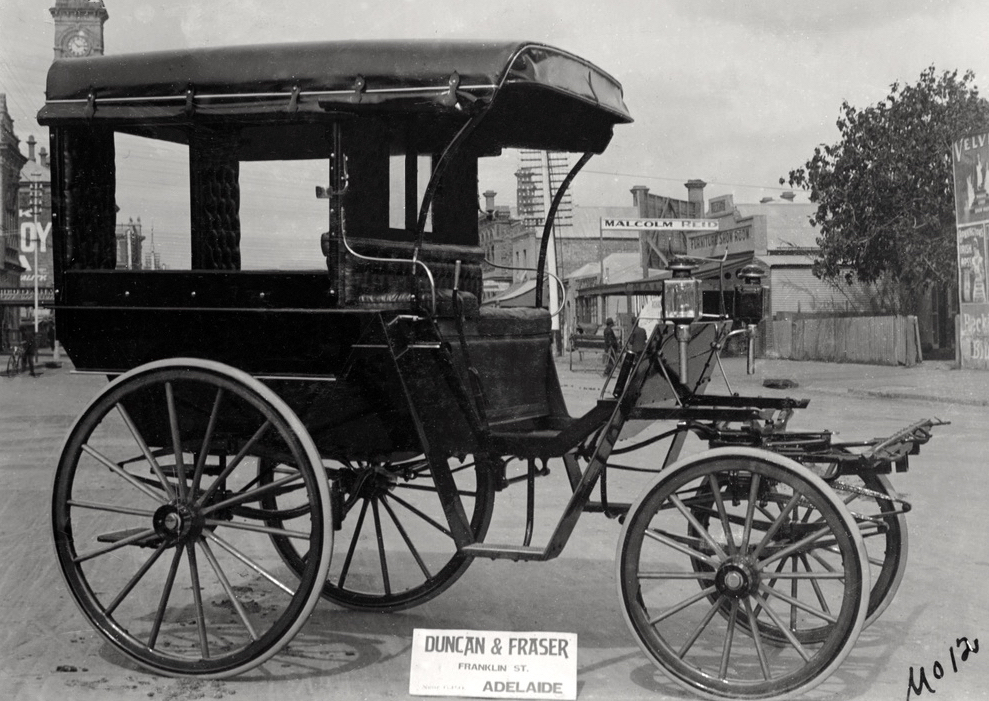 A horse-drawn vehicle newly manufactured by Duncan & Fraser Limited, photographed outside the company’s factory at 42 Franklin Street, Adelaide, South Australia in 1905. It is of a type type widely used as conveyances that often picked up passengers from horse trams. It has rubber tyres and leaf springs. This catalogue photo is listed under the heading "wagonettes", identified as a phaeton, on the State Library of South Australia website. In the background is a street scene, including the Adelaide General Post Office on which the tower clock is showing 2.53.